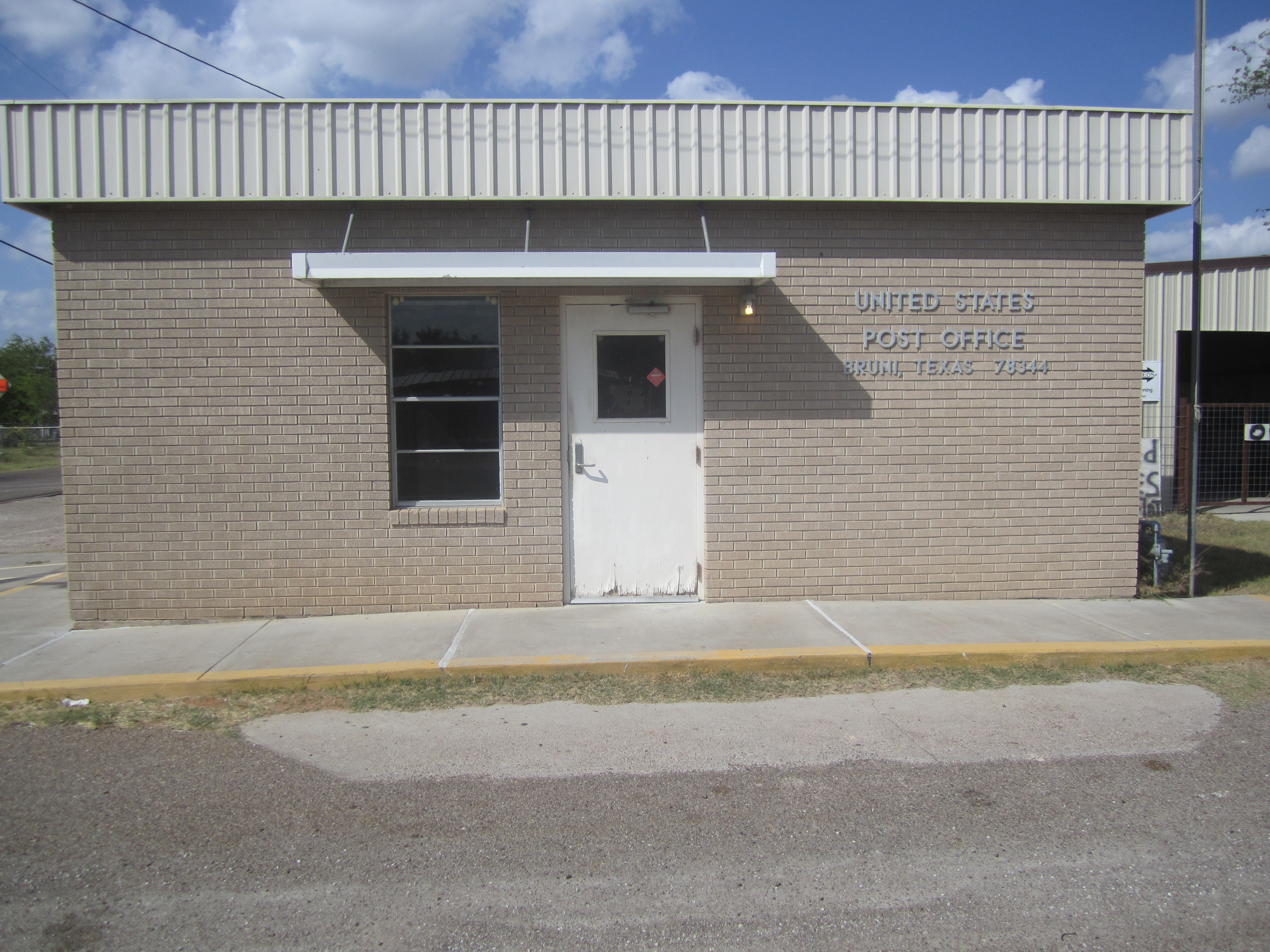 I took photo with Canon camera of post office in Bruni, TX.